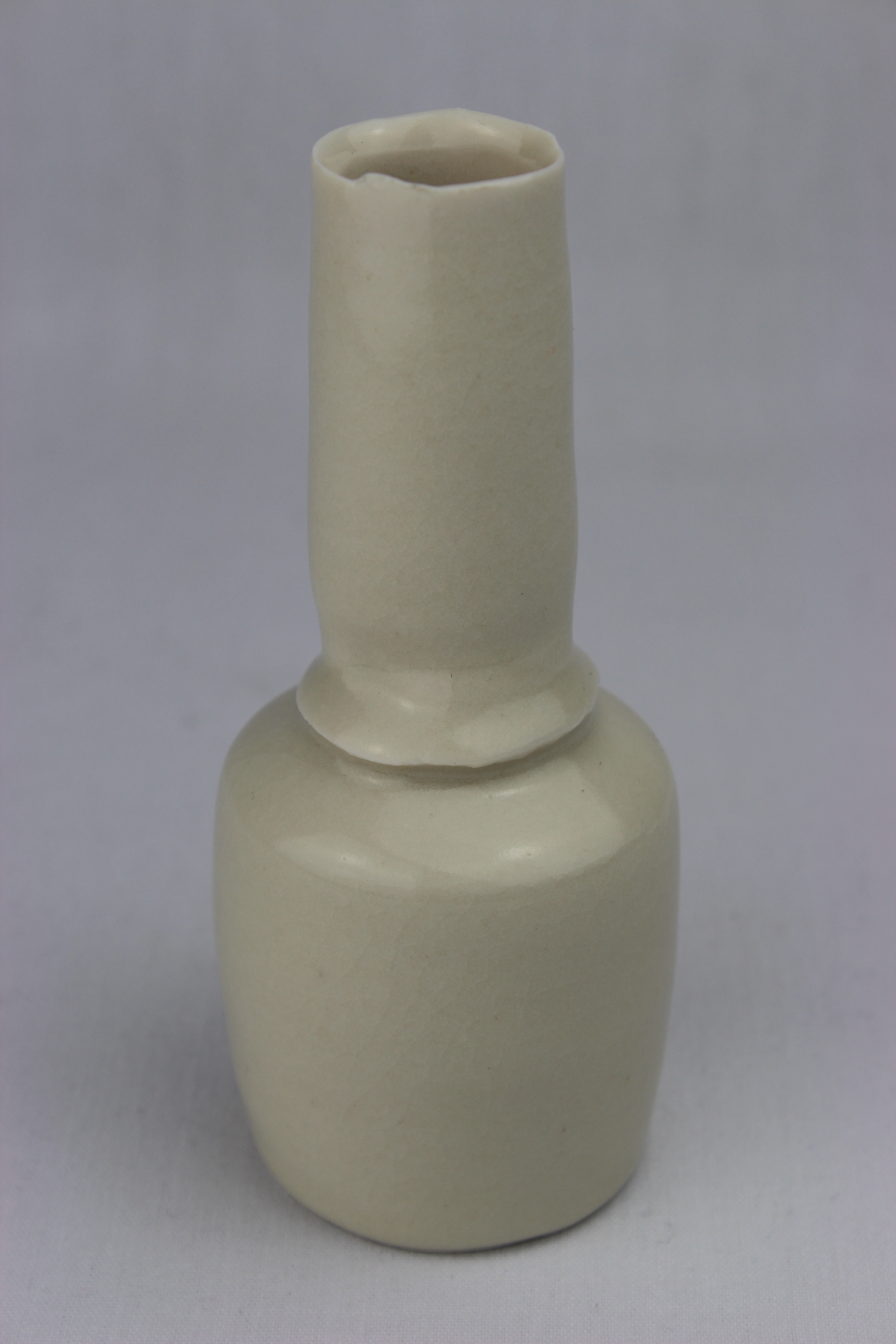 Small porcelain bottle with a long neck with a ridge at the bottom of it. Pale celadon glaze. From the W.A. Ismay Studio Ceramics Collection at York Art Gallery